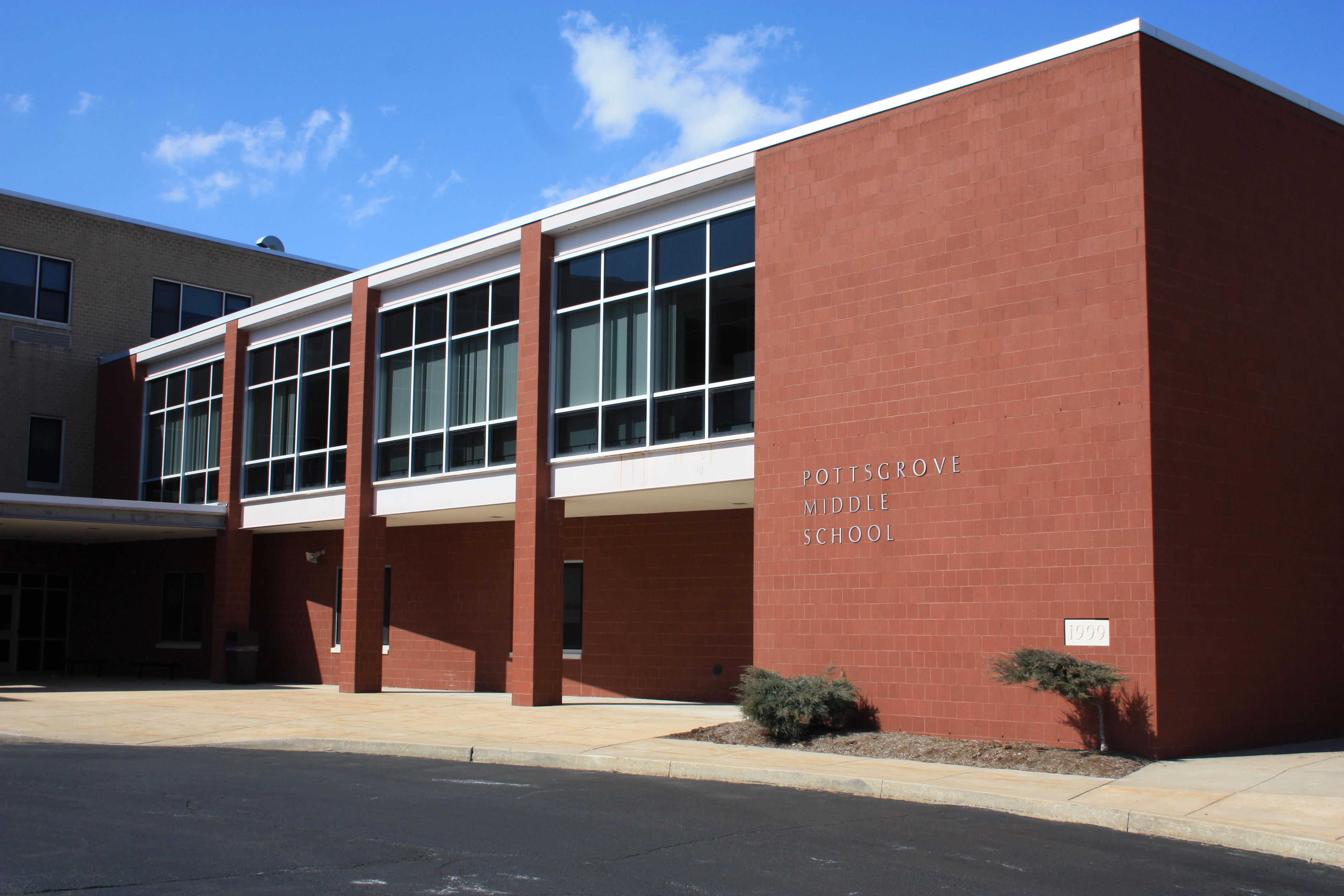 Pottstown Middle School Building